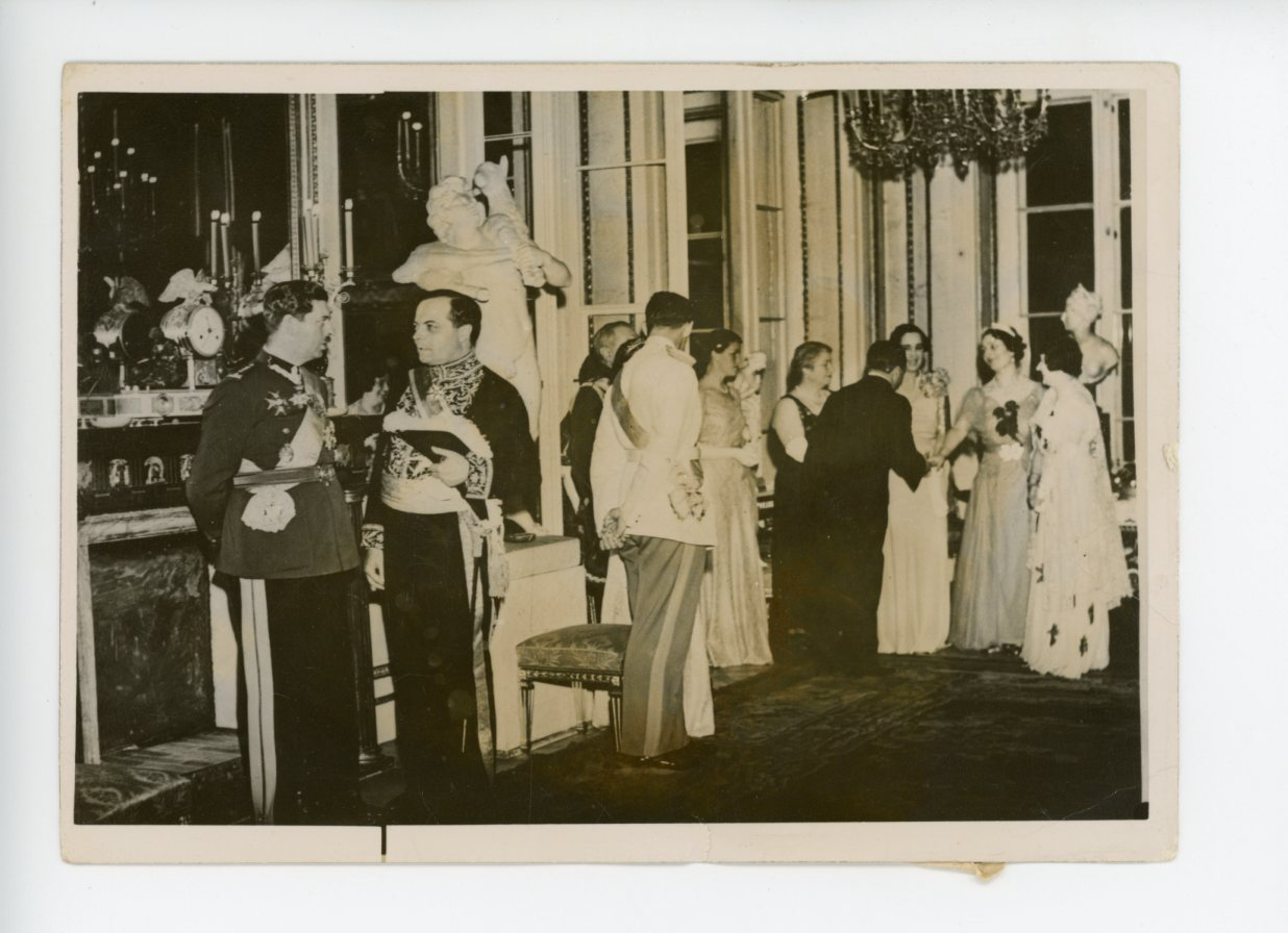 French Ambassador Léon Noël and King Carol II of Romania. Embassy of France in Warsaw, ca 1935